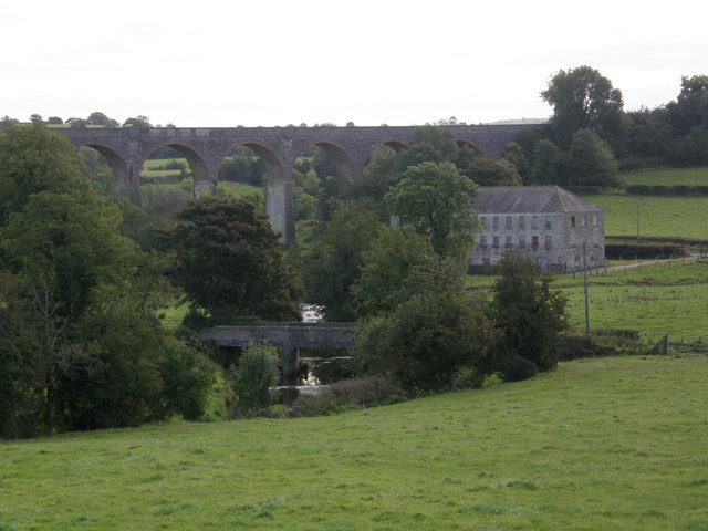 Tassagh Viaduct Constructed between 1903 - 1910 by the Castleblayney, Keady and Armagh Railway Company. Also included is an old scutch Mill and a view of a bridge over the Callen river.